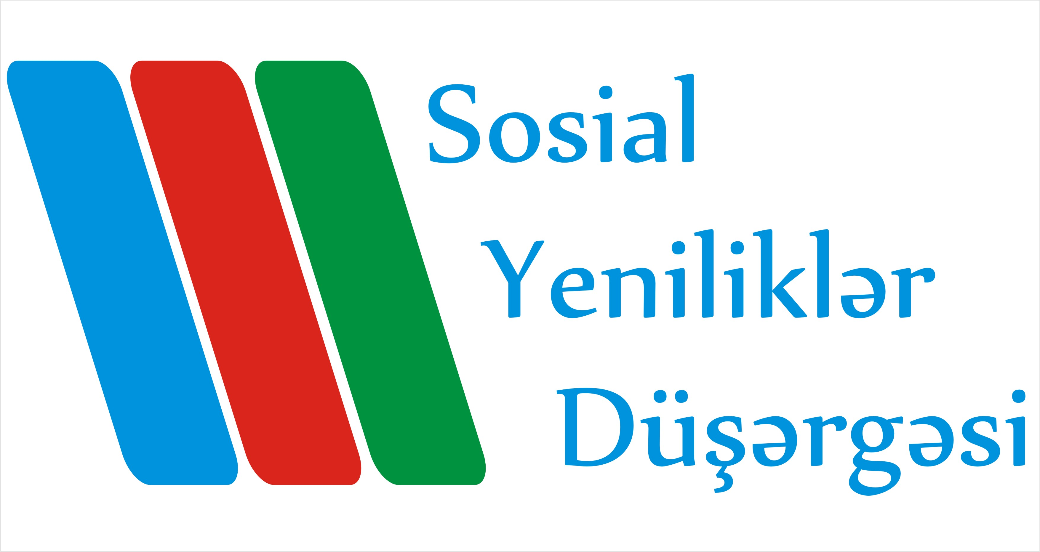 Sosial Yeniliklər Düşərgəsinin loqosu